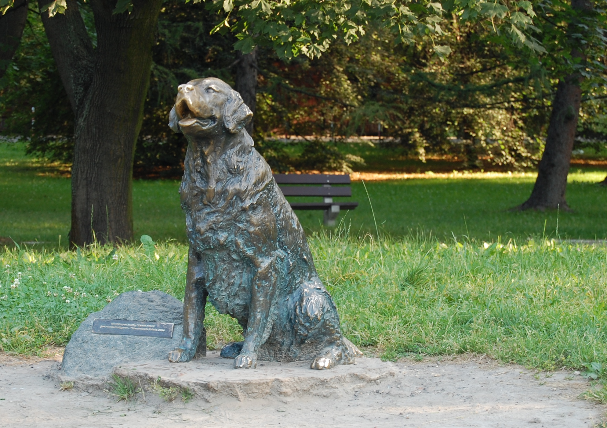 Happy dog monument in Pole Mokotowskie Park, Warsaw, Poland.